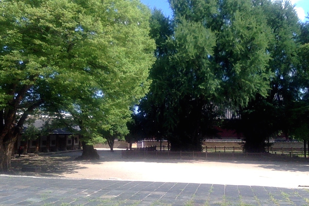 Ginkgos planted in Seonggyungwan